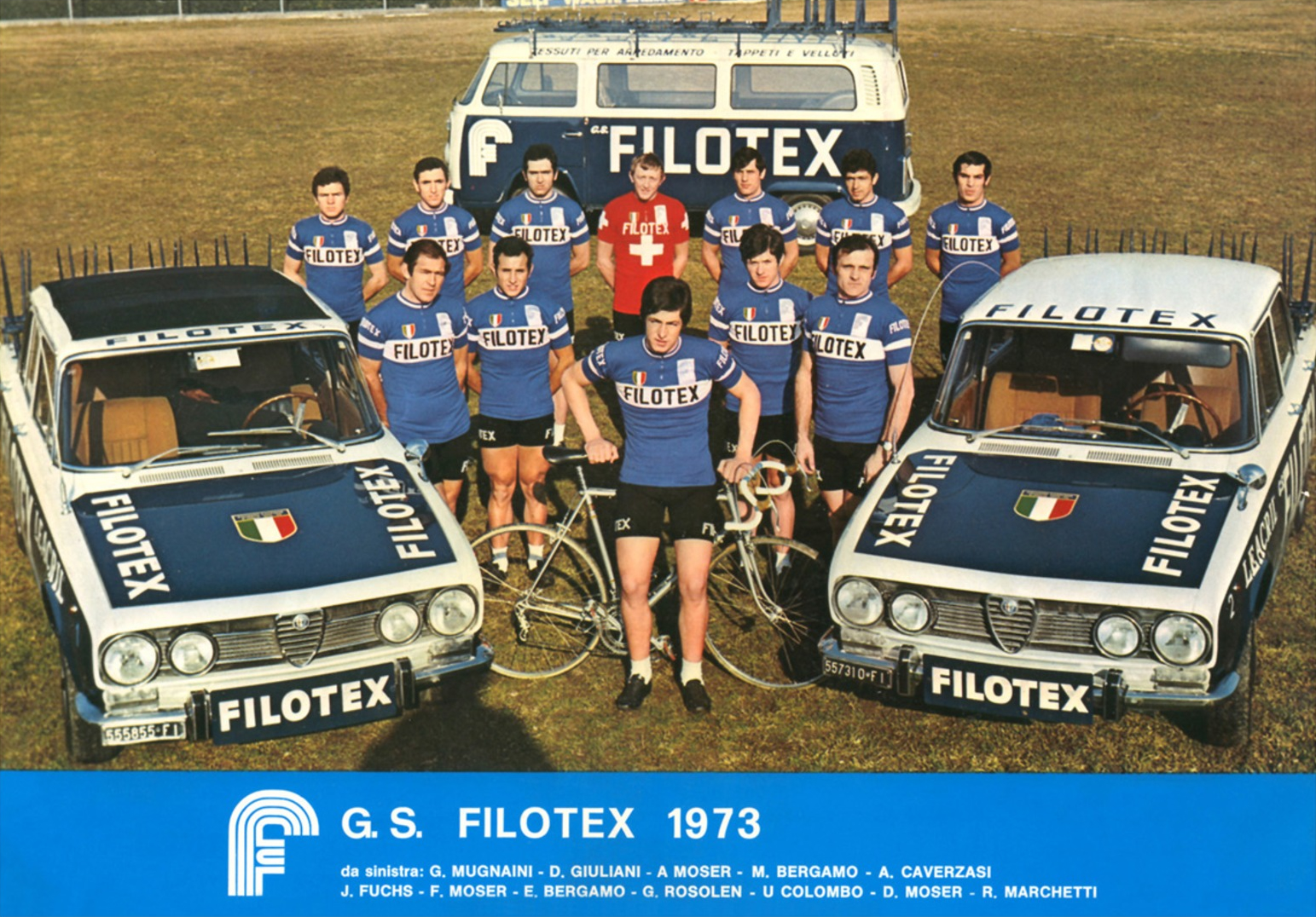 Filotex cycling team 1973 photo